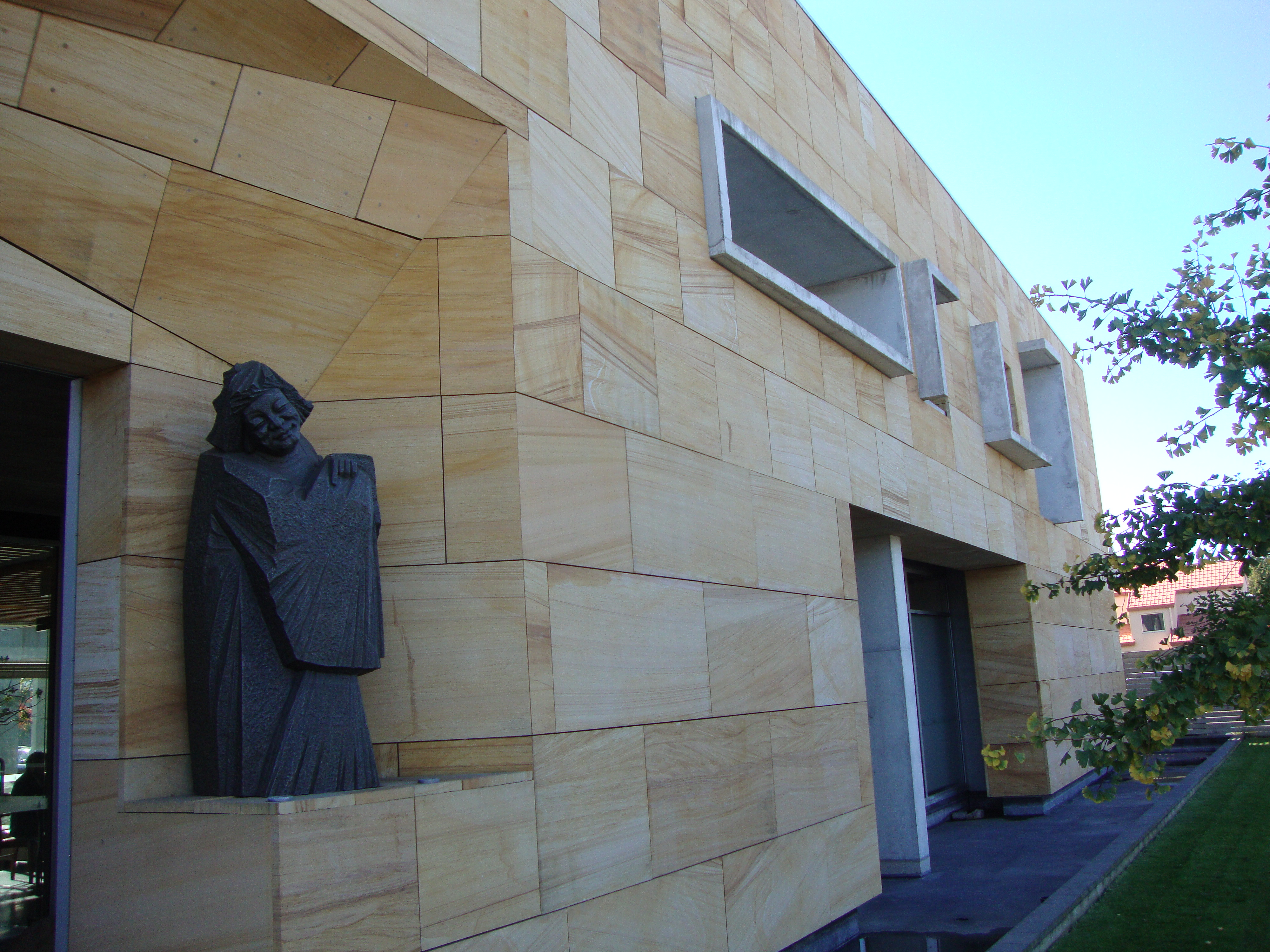 International Buddhist Centre in Riccarton Road, Christchurch